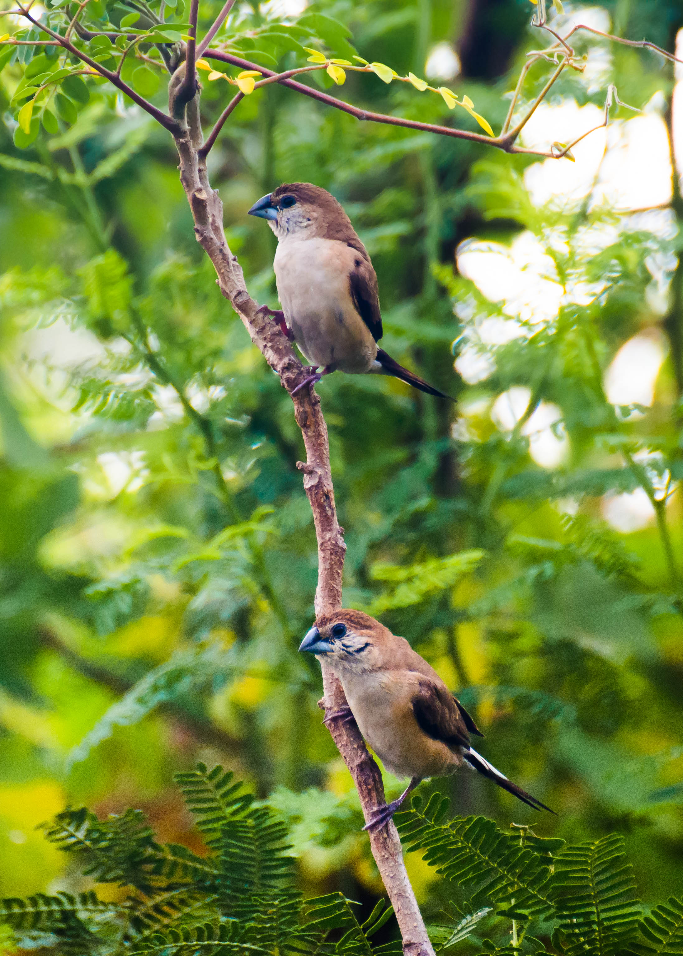 A pair of Indian Silverbill Euodice malabarica adults in Tirunelveli, Tamil Nadu, India.